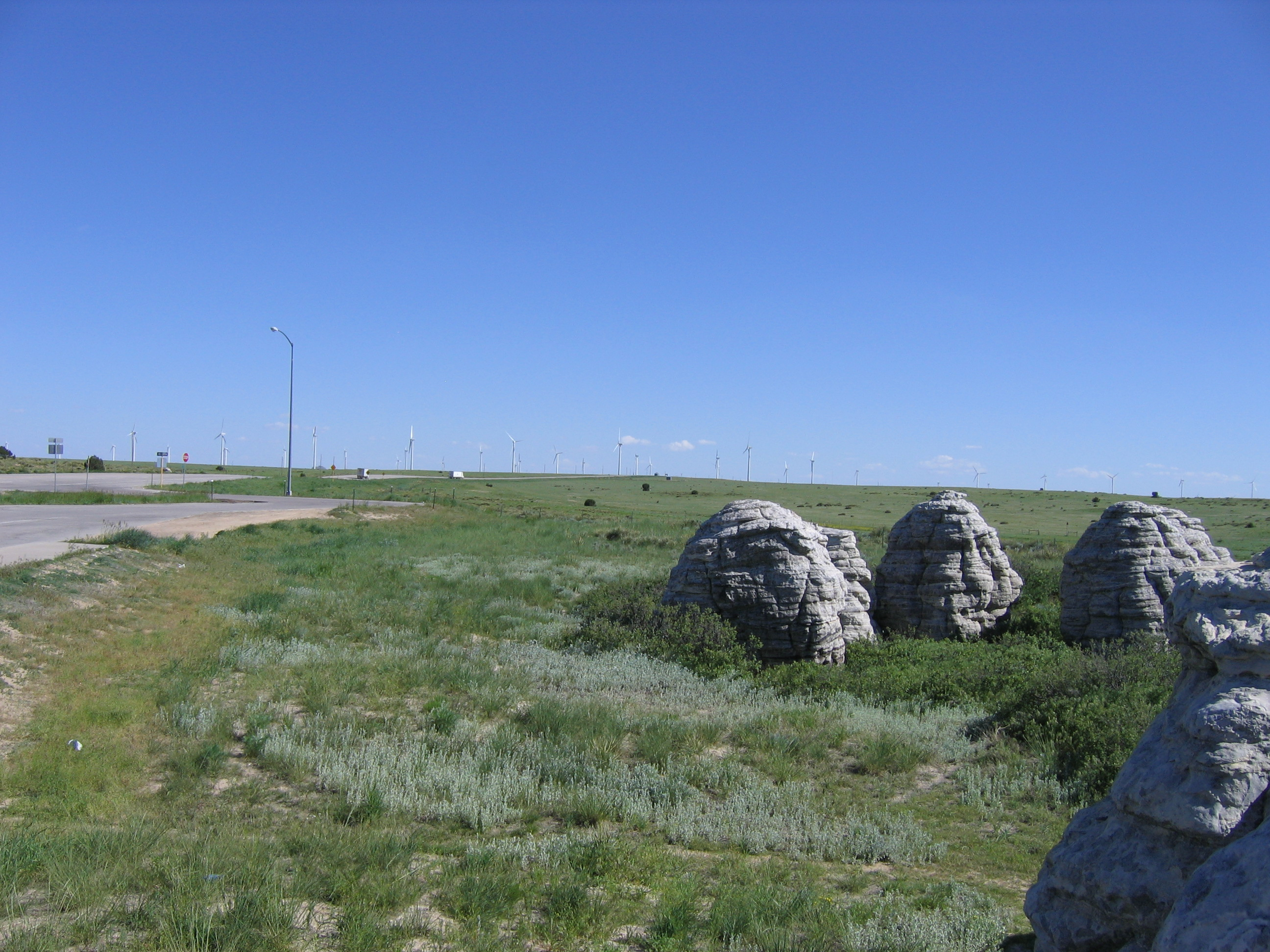 Wind farm in Colorado from Gobblers Knob rest area on U.S. Route 287 southbound in Baca County.